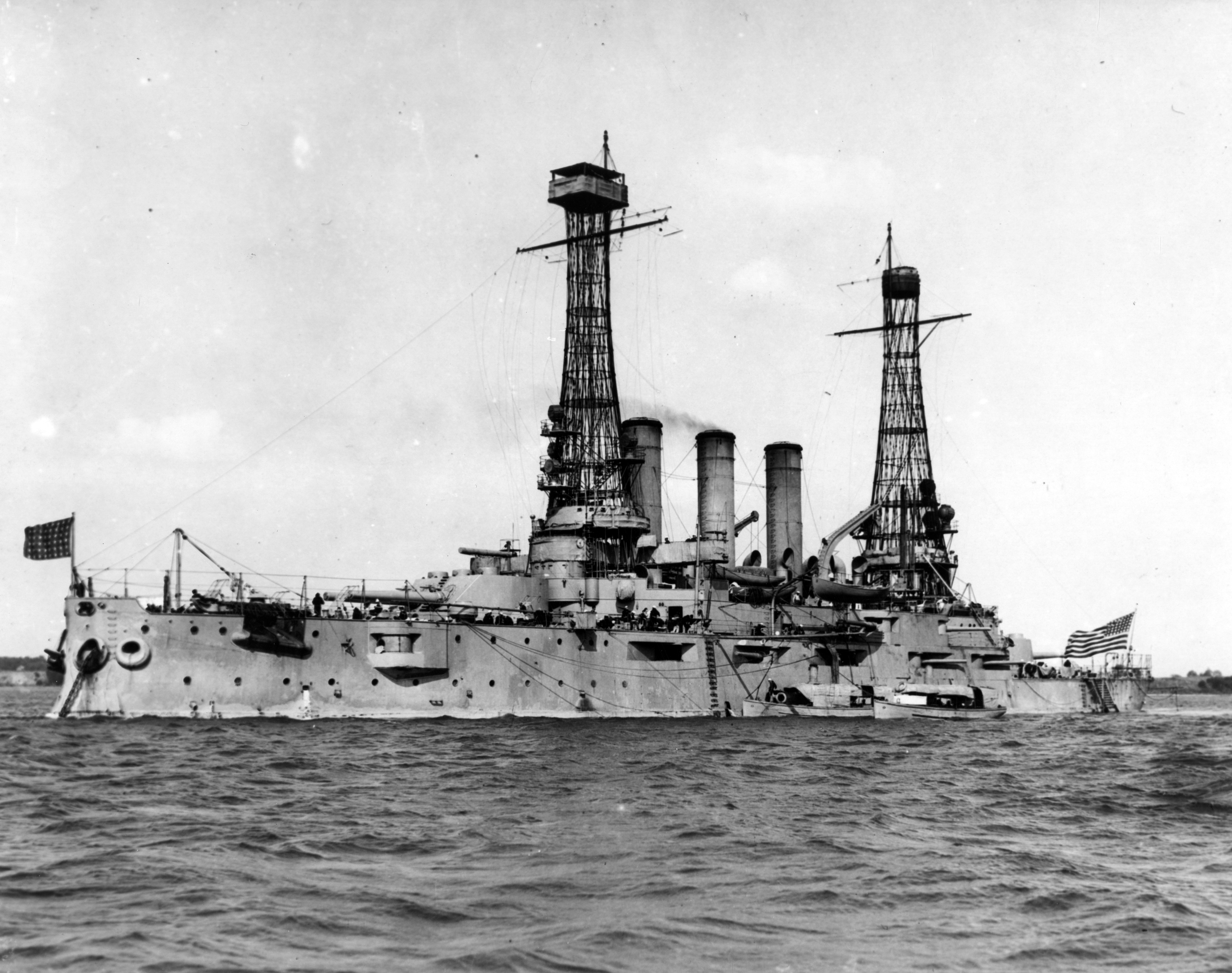 The Battleship USS Ohio (BB-12), Public domain photo from history.navy.mil